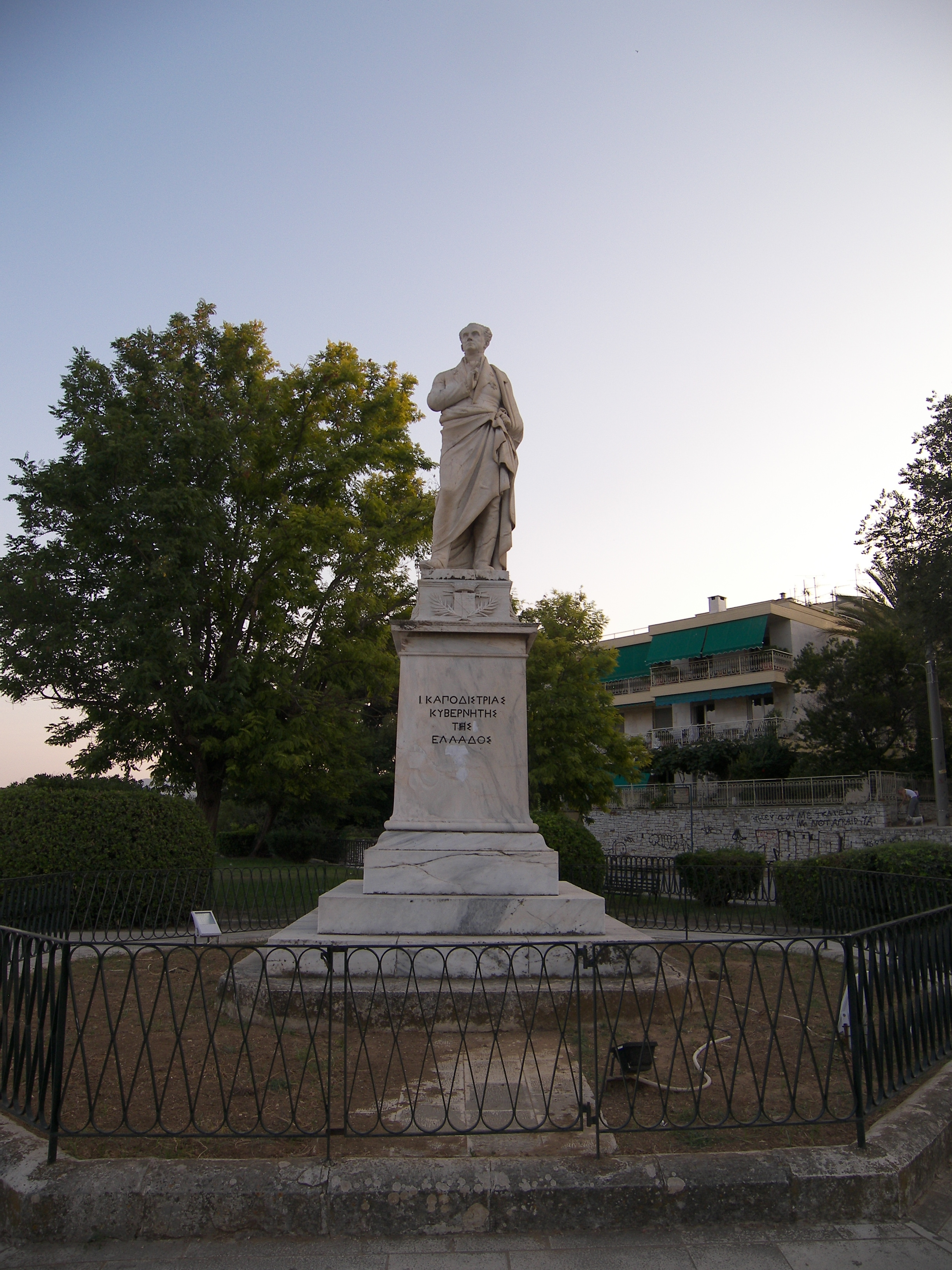 Filename